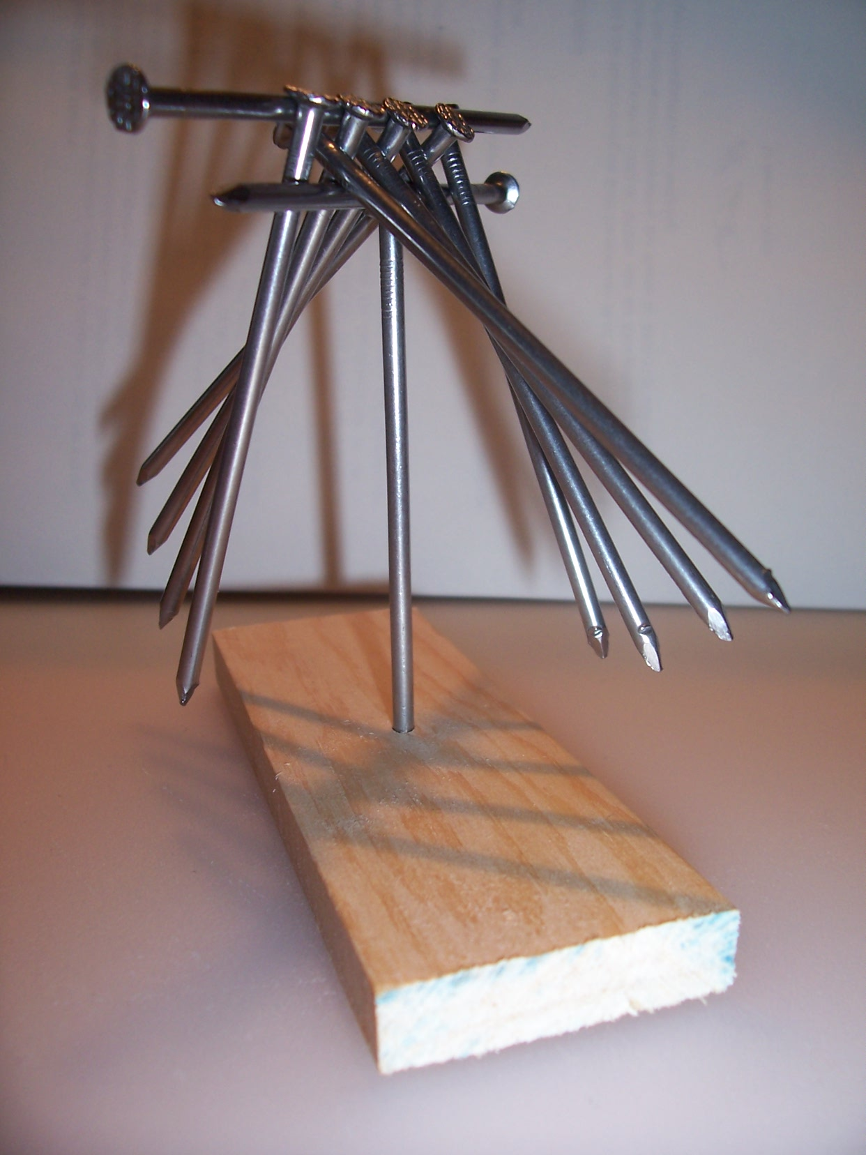 Photo by Plani (Plani). It shows the last step of the "Berchtesgadener problem".